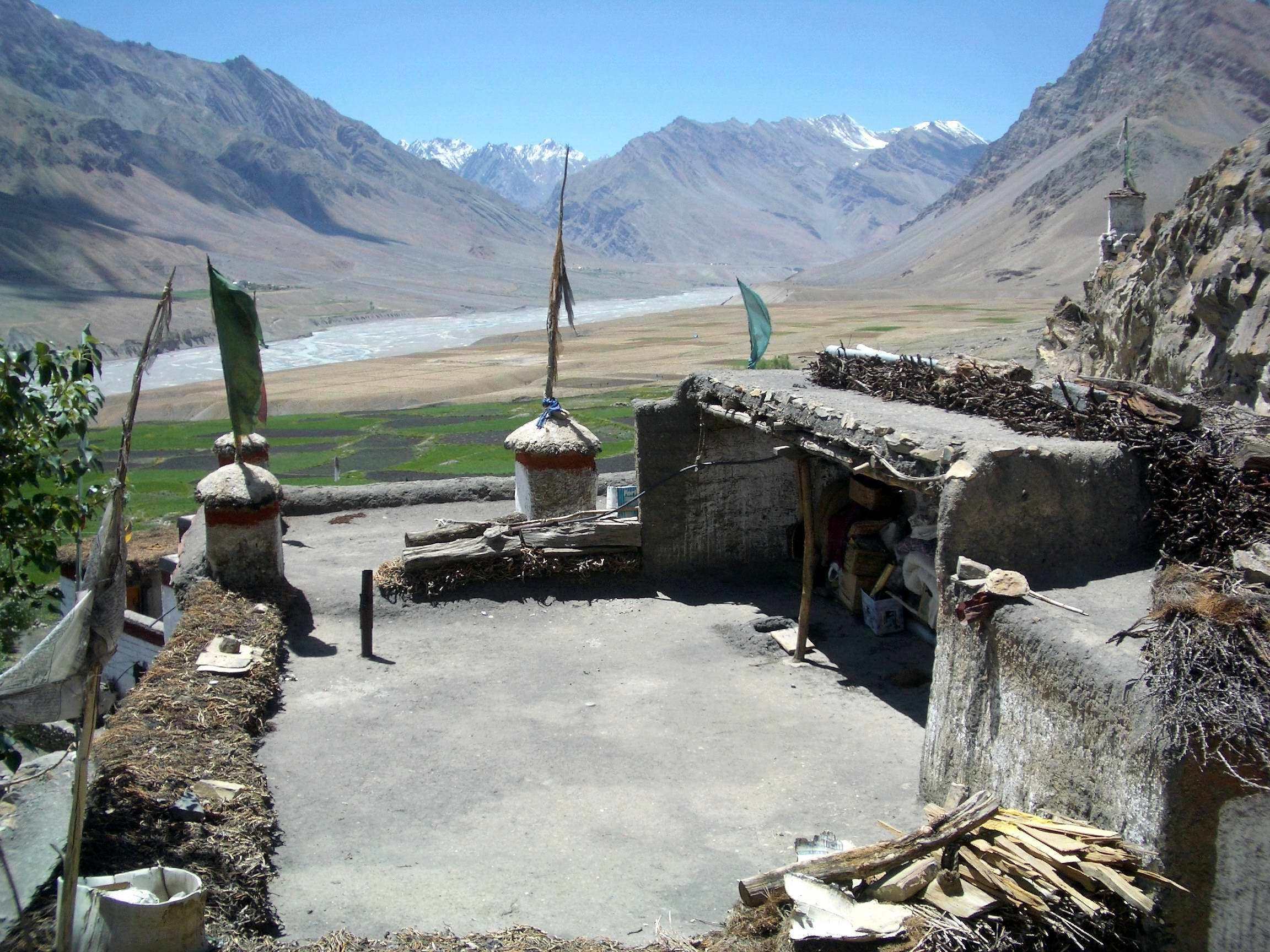 Photo taken by myself at old peoples' facility, Key Gompa, Spiti. 2004